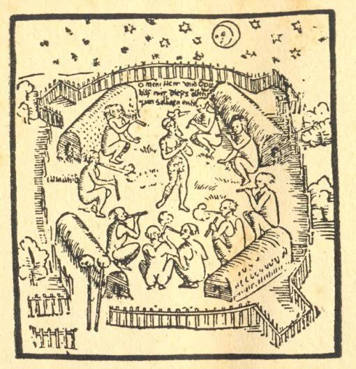 Tupinambá village in Hans Staden's times.